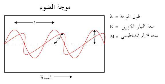 SVG version of Image:Light-wave.png by User:Heron.